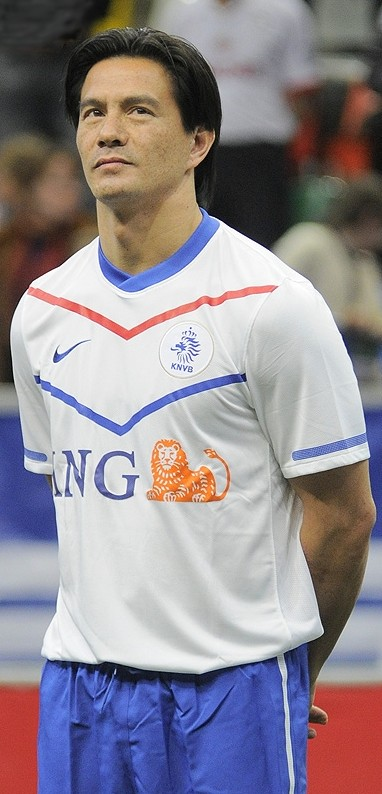 Michael Mols at 2011 Legends Cup